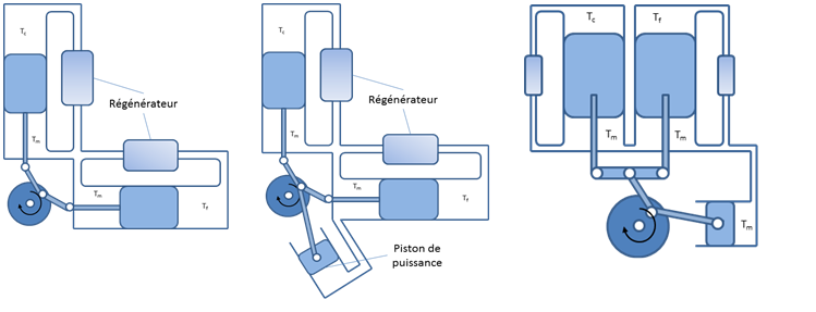 3 types of Vuilleumier machine